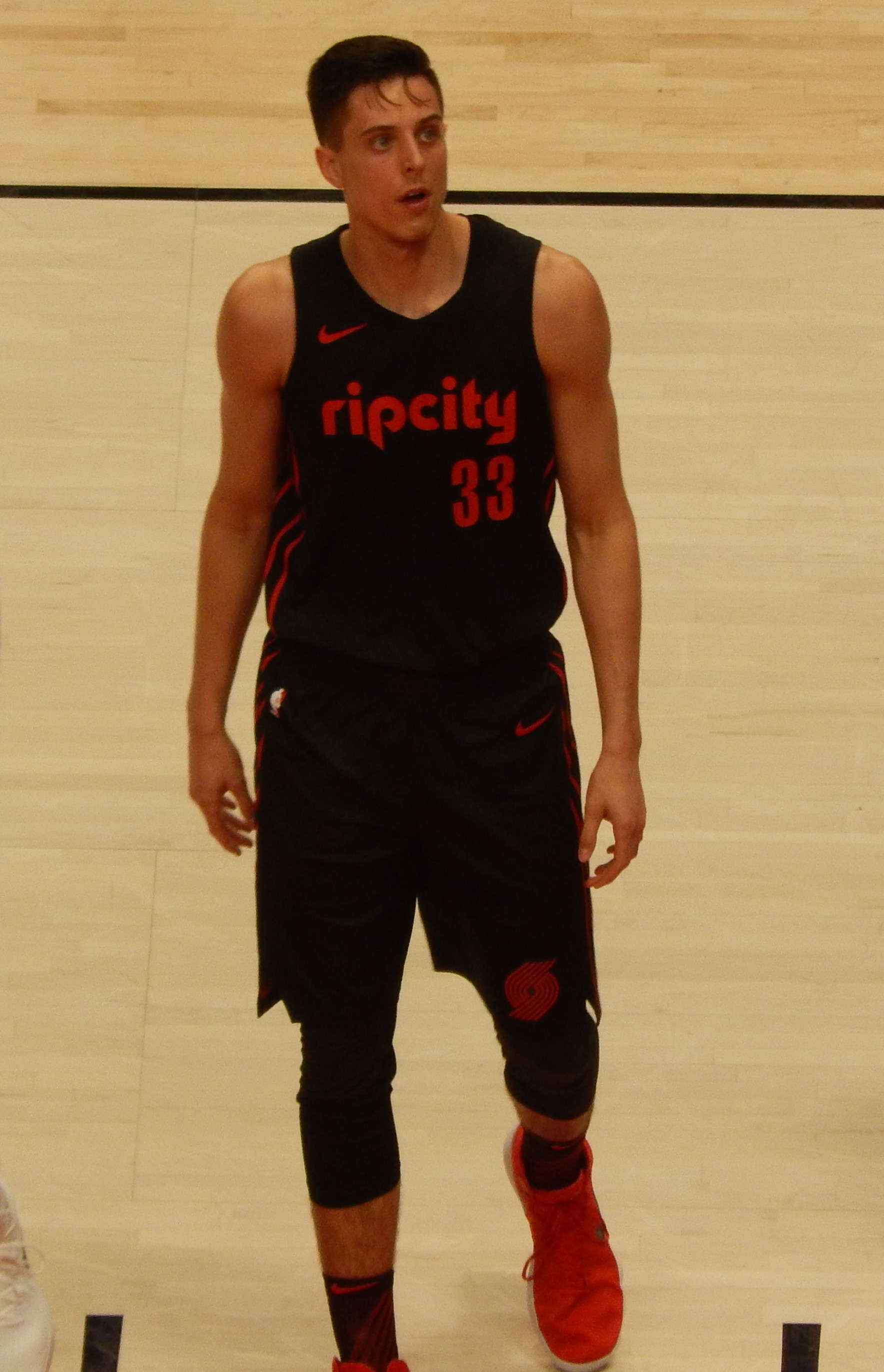 Zach Collins #33 of the Sacramento Kings against the Portland Trail Blazers on February 27, 2018 at Moda Center in Portland, Oregon.